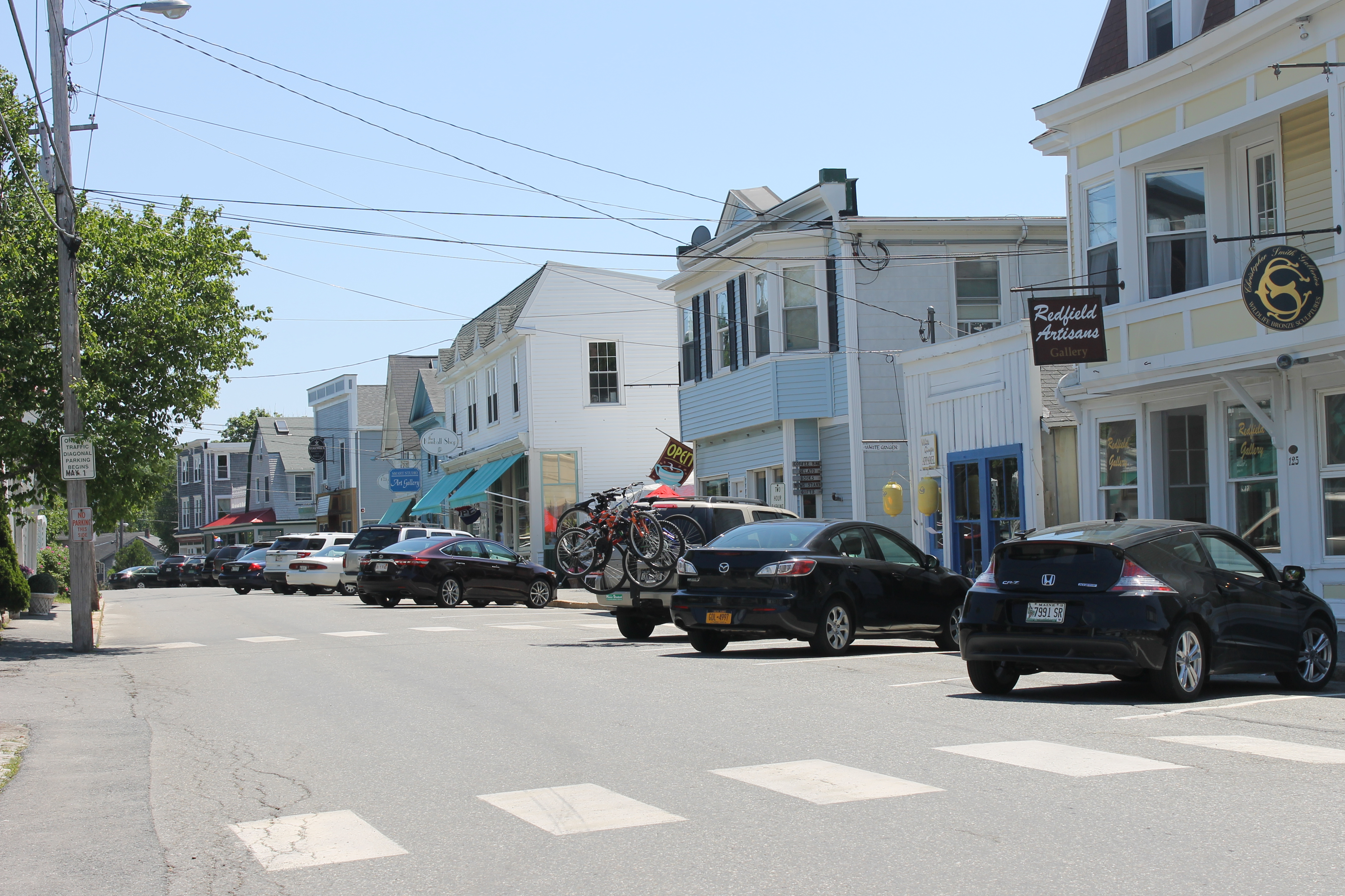 I took photo of village of Northeast Harbor, Maine, with Canon camera.